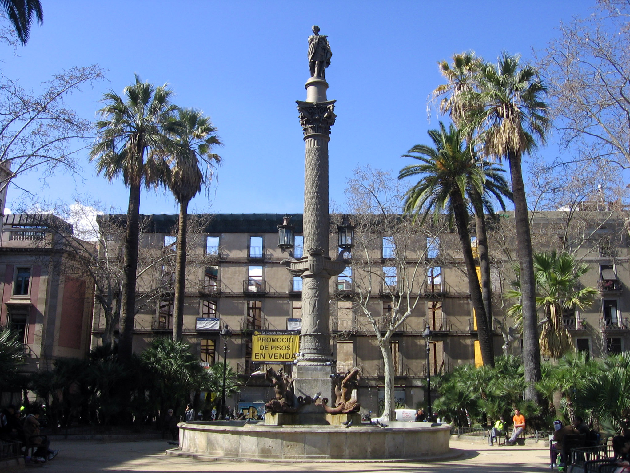 Francesc Daniel Molina (Catalonian, 1812-1867), architect), Damià Campenyi Estrany (Catalonian, 1771-1855) and Josep Anicet Santigosa (Catalonian, 1823-1895), sculpors, Valentí Esparó, founder: monument "A Galceran Marquet", inaugurated 1851, painted cast iron rostral column and statue on Montjuïc stone base, with pedestal lanterns mounted on each of the two rostra (prow or ram-shaped brackets) of the shaft; the monument is in the centre of a monumental fountain at Plaça del Duc de Medinaceli, Barcelona, Catalania, Spain. [1]